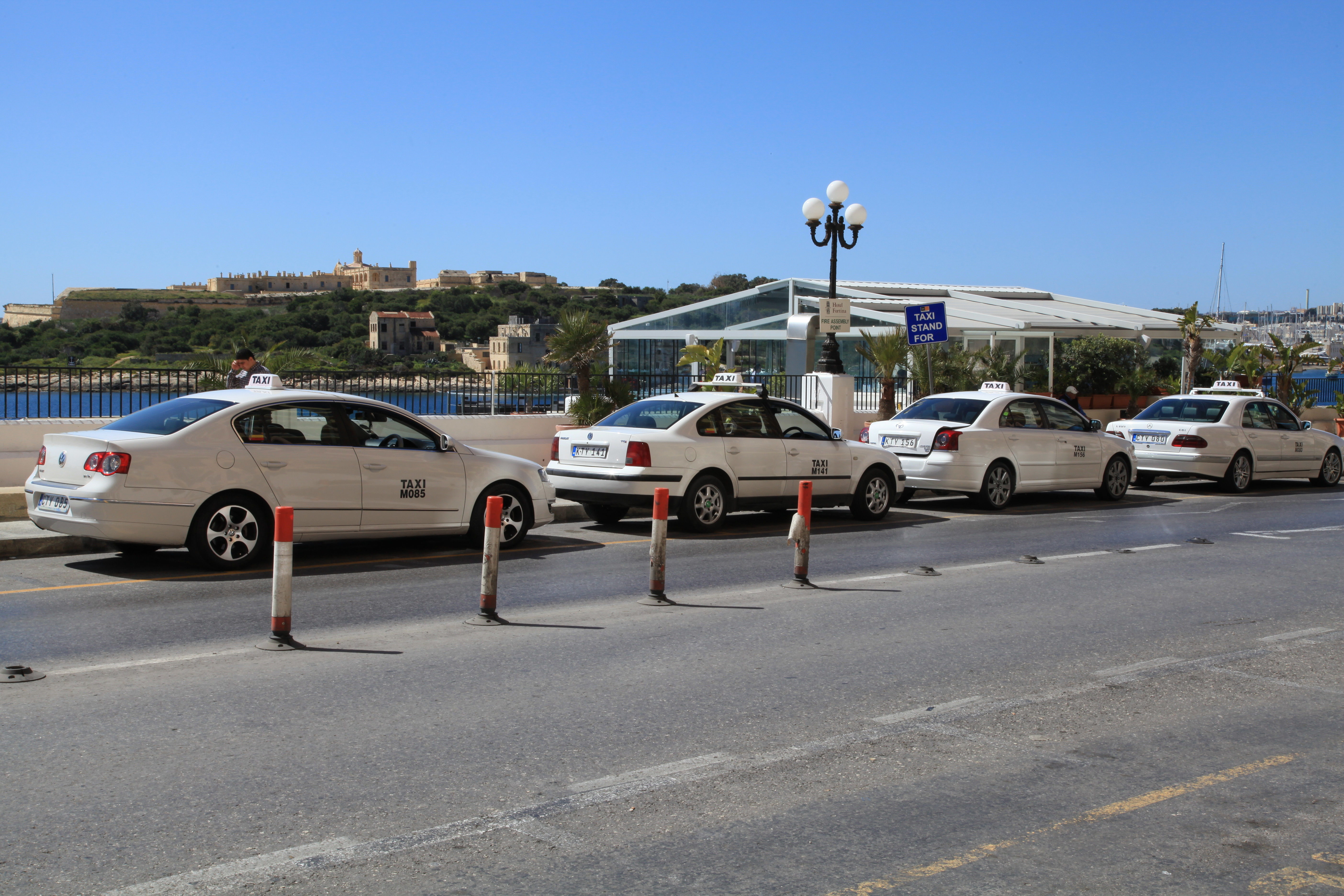 Triq Ix-Xatt ta' Tigné in Sliema, Malta